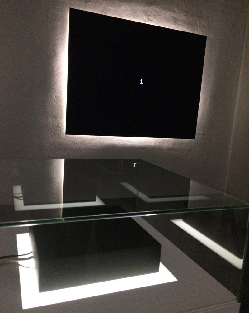 First frame of the 1000 year GIF animation loop AS Long As Possible playing in Kiasma, Helsinki 2017 ASLAP by Juha van Ingen, with the technical help of Janne Särkelä (Author of this image).